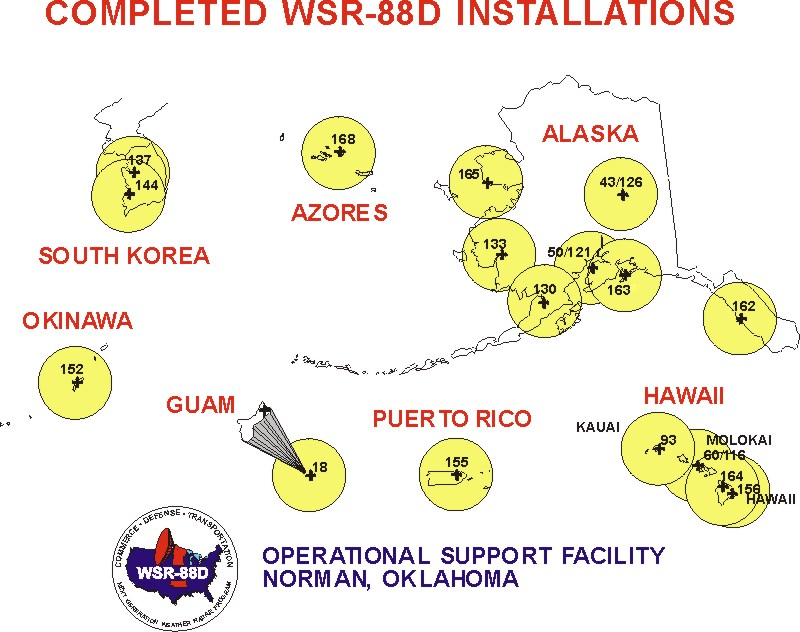 American NEXRAD radar network of weather radar under the authority the National Weather Service of NOAA.